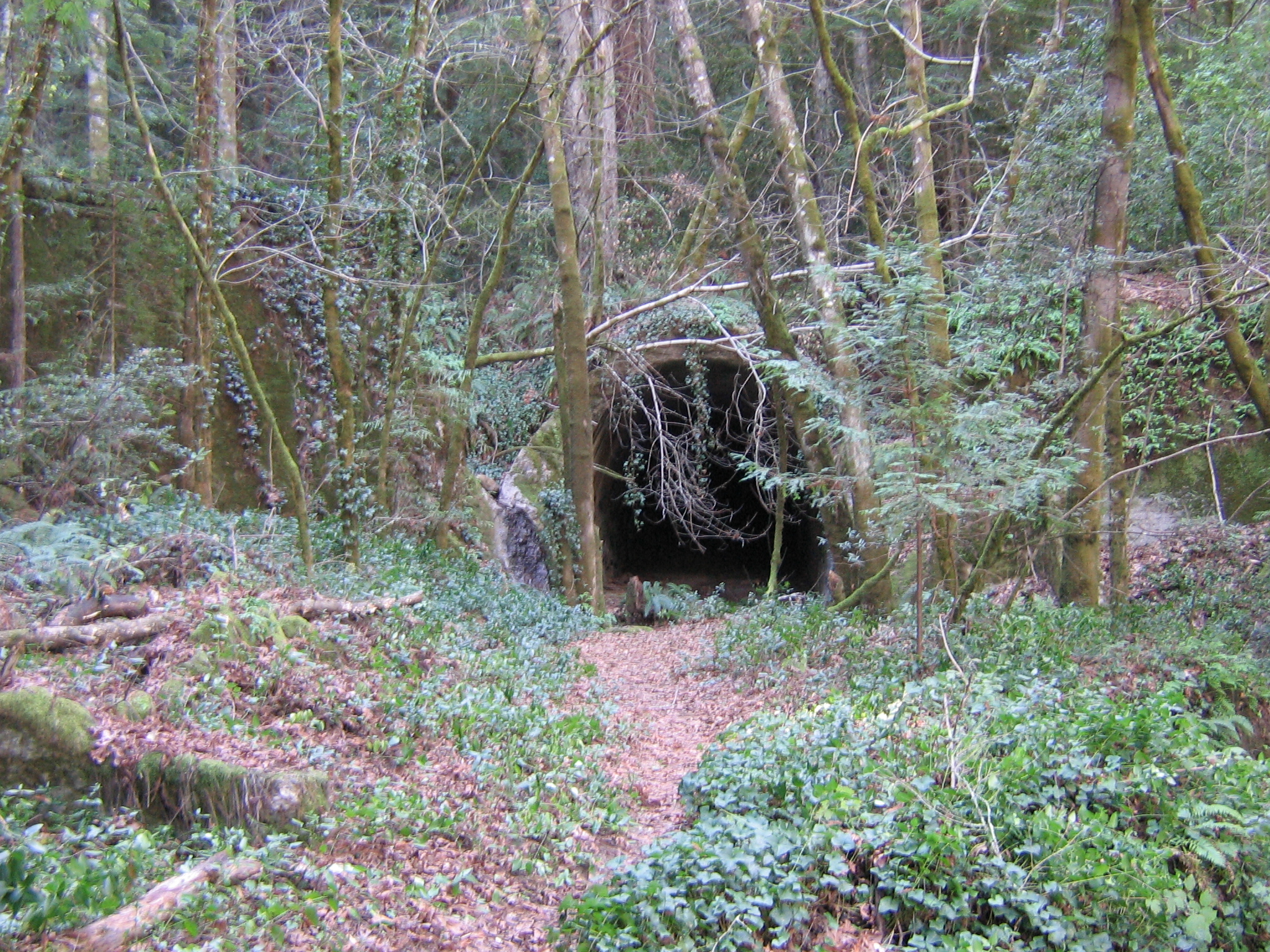 Ruins of Wrights/Laurel tunnel entrance at Wrights, CA